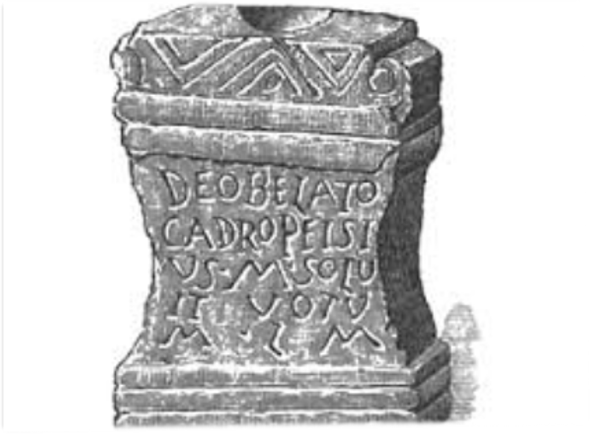 Altar; Material: Red sandstone; Description: With plain sides. Dimensions: W 0.229 × H 0.292 m. Site: Kirkbride; Find date: Before 1873; Find context: At Kirkbride, 6.4 km. south of Bowness. Modern location: Now in Tullie House Museum. Inscription: Deo Belato-Kairo Peisi-us m (ile) solv-es votu-ml (ibens) m (erito).